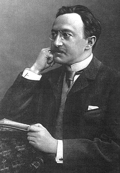 from